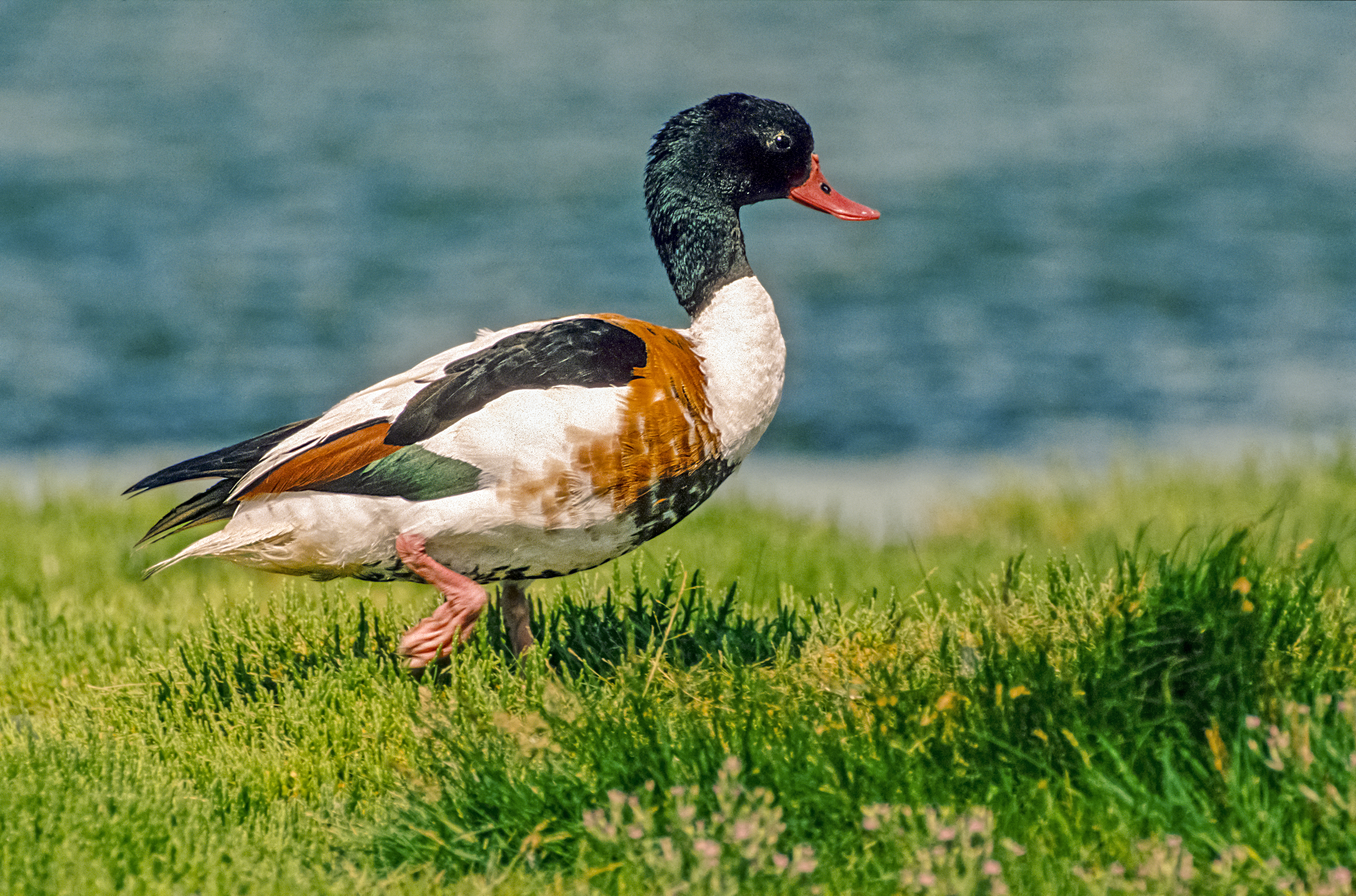 Common Shelduck (Tadorna tadorna) on salt marsh